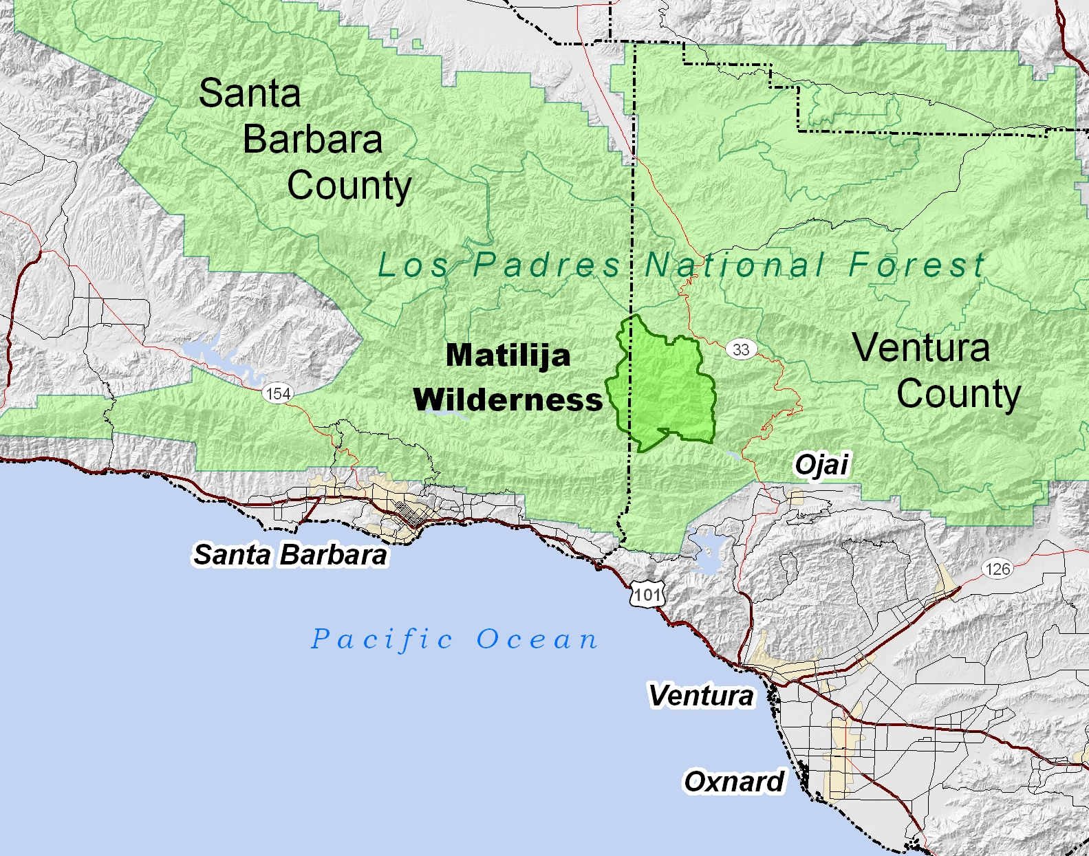 Matilija Wilderness location map; all data shown on this map is in the public domain; created by User:Antandrus using ArcGIS 9.2. Map projection: California State Plane, Zone V, NAD 83.